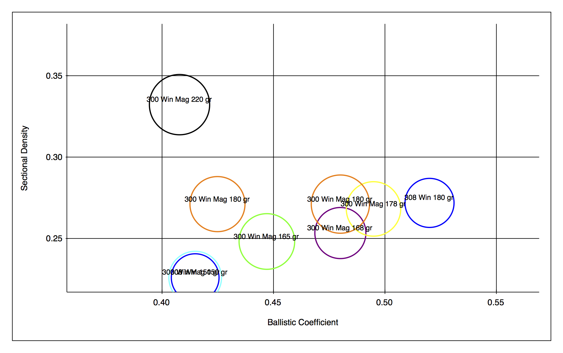 A chart of the Sectional Density vs Ballistic Coefficient comparing various 300 Winchester Magnum cartridges. The circle sizes are proportional to recoil velocity. Other calibre's for comparison. Created with the CartridgeChooser iPad App.